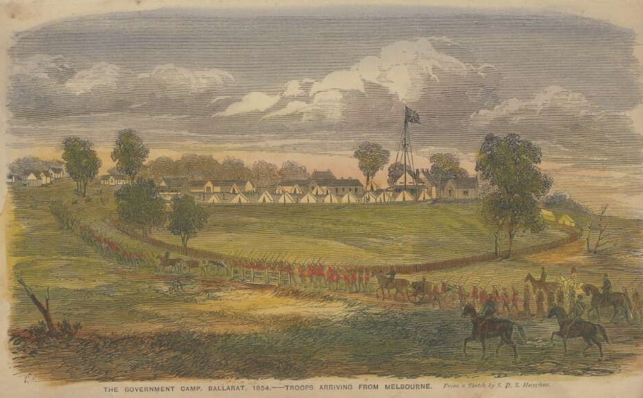 The Government Camp, Ballarat, 1854, troops arriving from Melbourne, 1 print : wood engraving ; 11.5 x 20.4 cm.